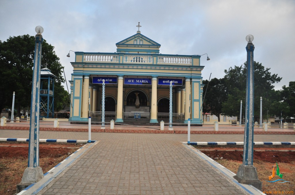 Madhu Church is located in the north-western Mannar District, about 300 km from the capital